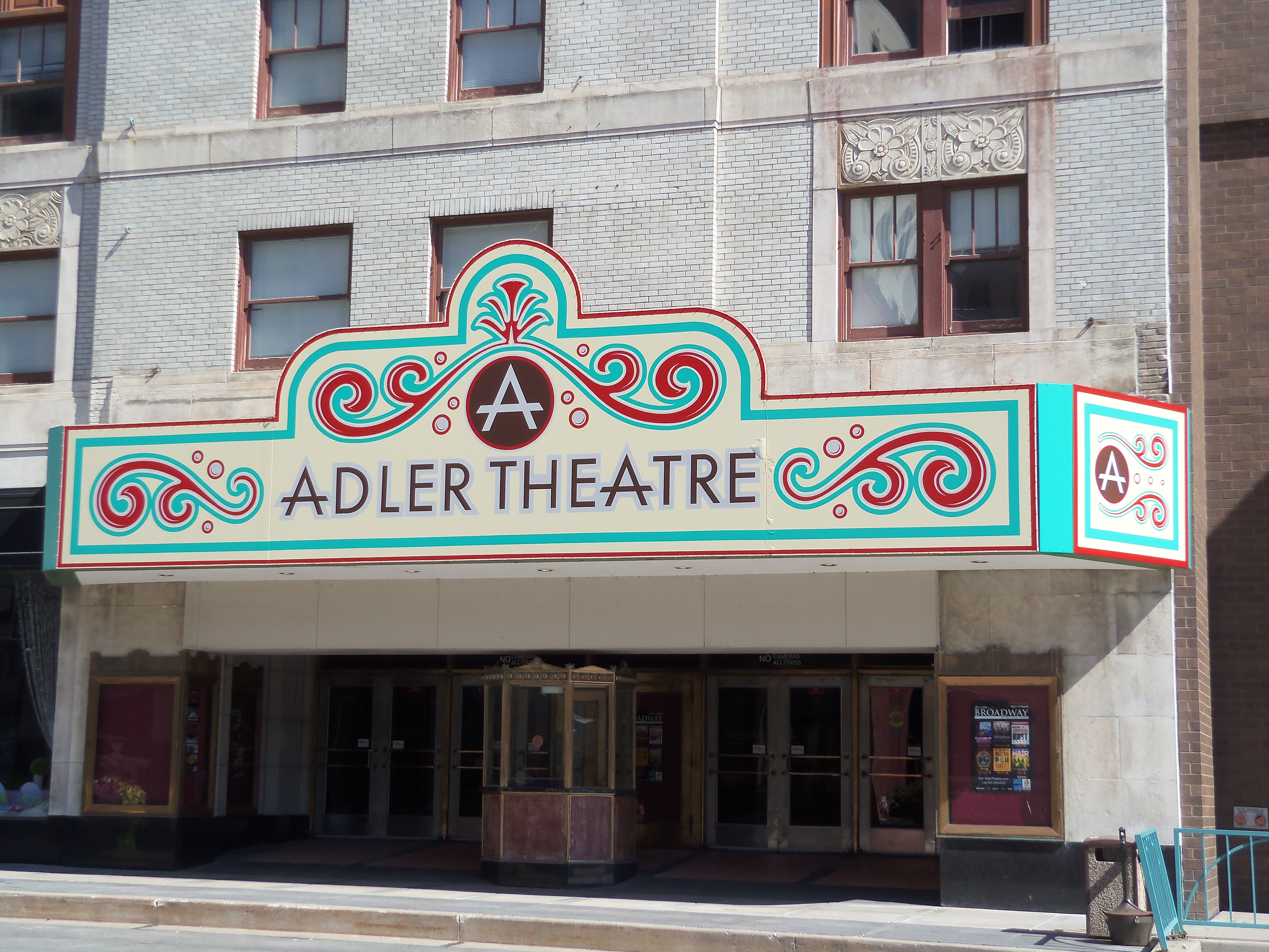 The marquee built in 2010 for the Adler Theater in Davenport, Iowa.